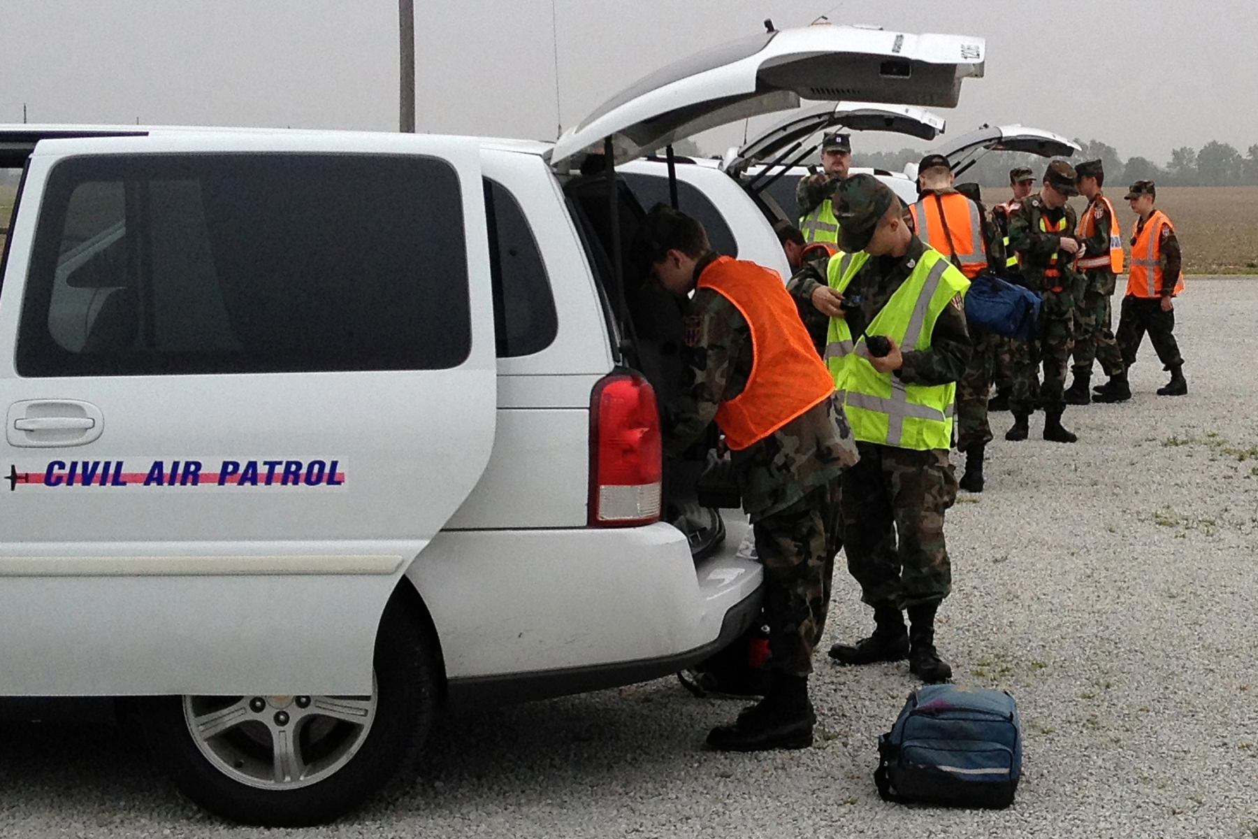 GRISSOM AIR RESERVE BASE, Ind. -- Members of the local Civil Air Patrol prepare to conduct an exercise with the Grissom emergency management team and members of the 434th Communications Squadron in Kokomo, Ind. May 5. The exercise gave the organizations the opportunity to work together and train with their equipment. (U.S. Air Force photo/Robert Wydock Jr.)